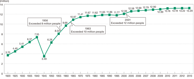 Tokyo historical population since 1920